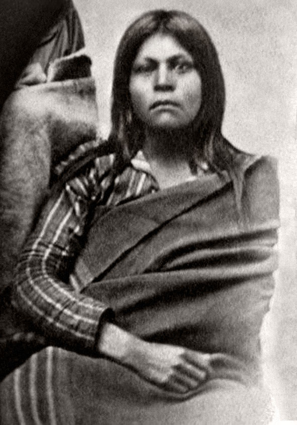 A photograph of a Native American woman, believed to be Juana Maria, who was the last surviving member of her tribe, the Nicoleño. This photograph was found alongside a picture of Maria Sinforosa Ramona Sanchez, wife of George Nidever, with whom Maria had lived while at the Santa Barbara Mission.